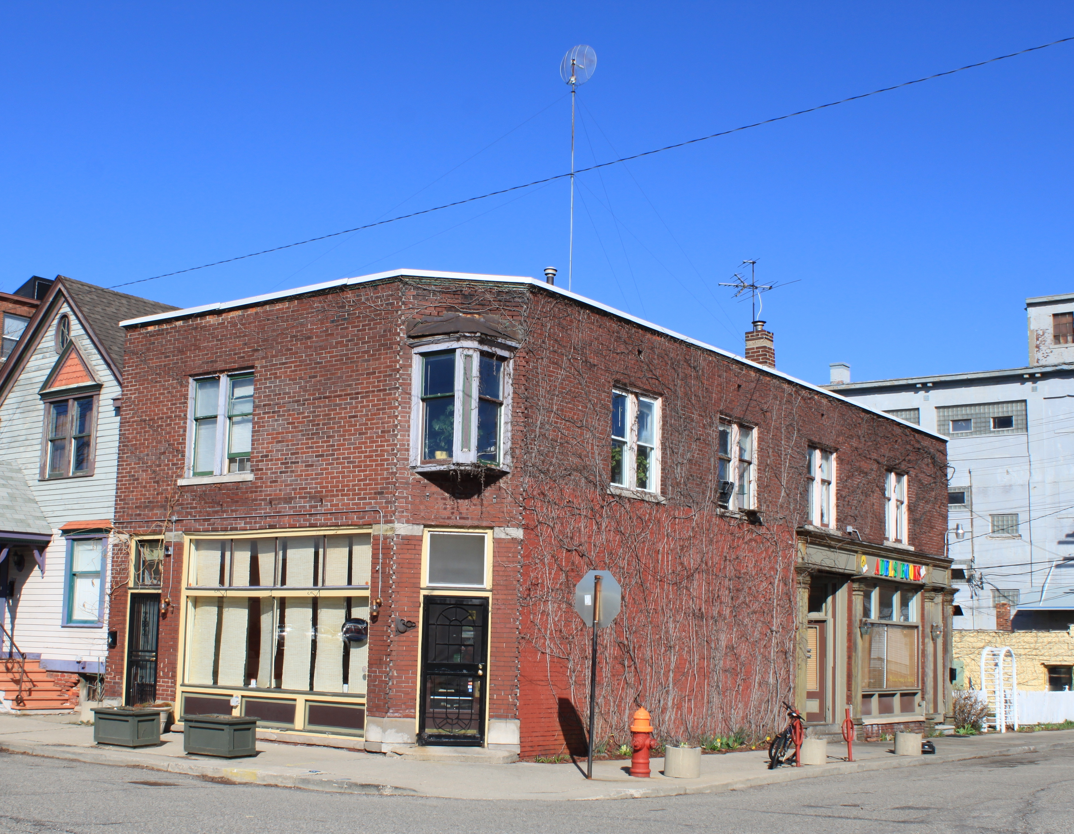 Mudgies's Deli, 1300 Porter Street, Detroit, Michigan